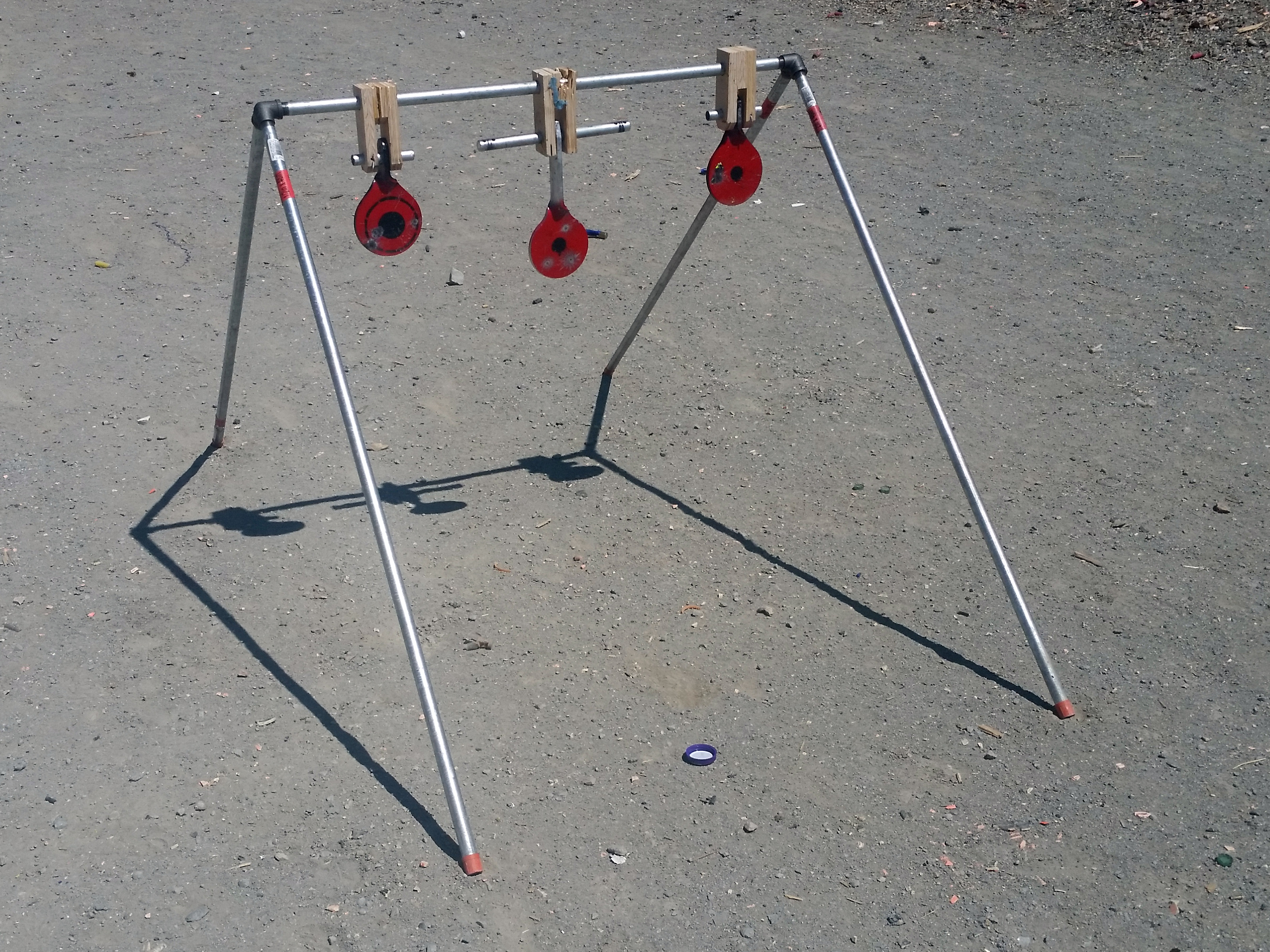 Three steel targets for shooting